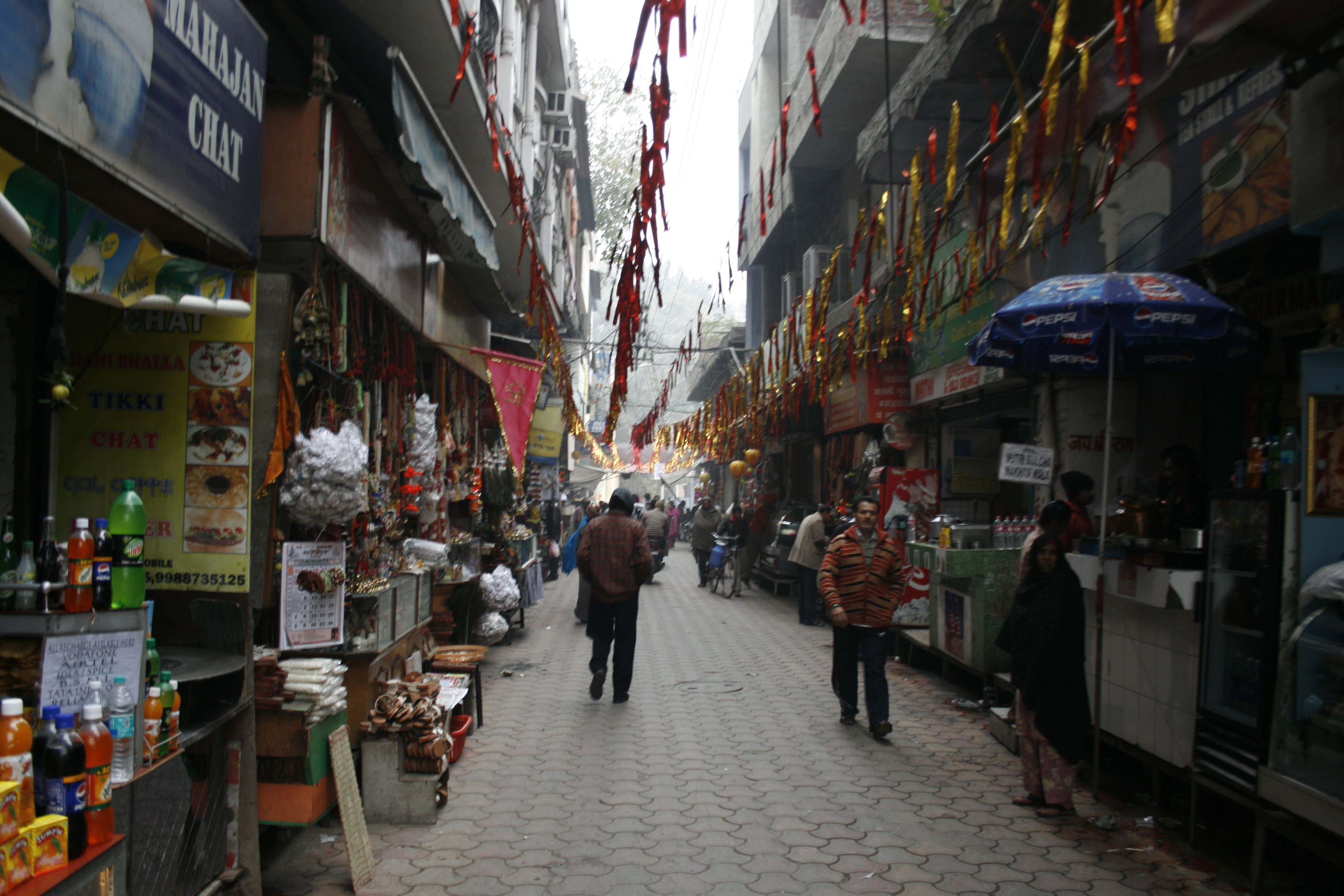 A narrow street in Amritsar, festooned with sparkly garlands.